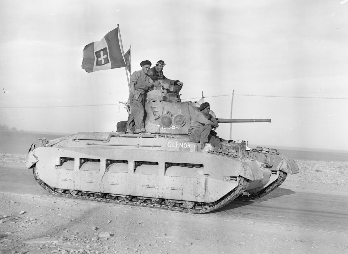 A British Matilda tank on its way into Tobruk, displaying an Italian flag, 24 January 1941.